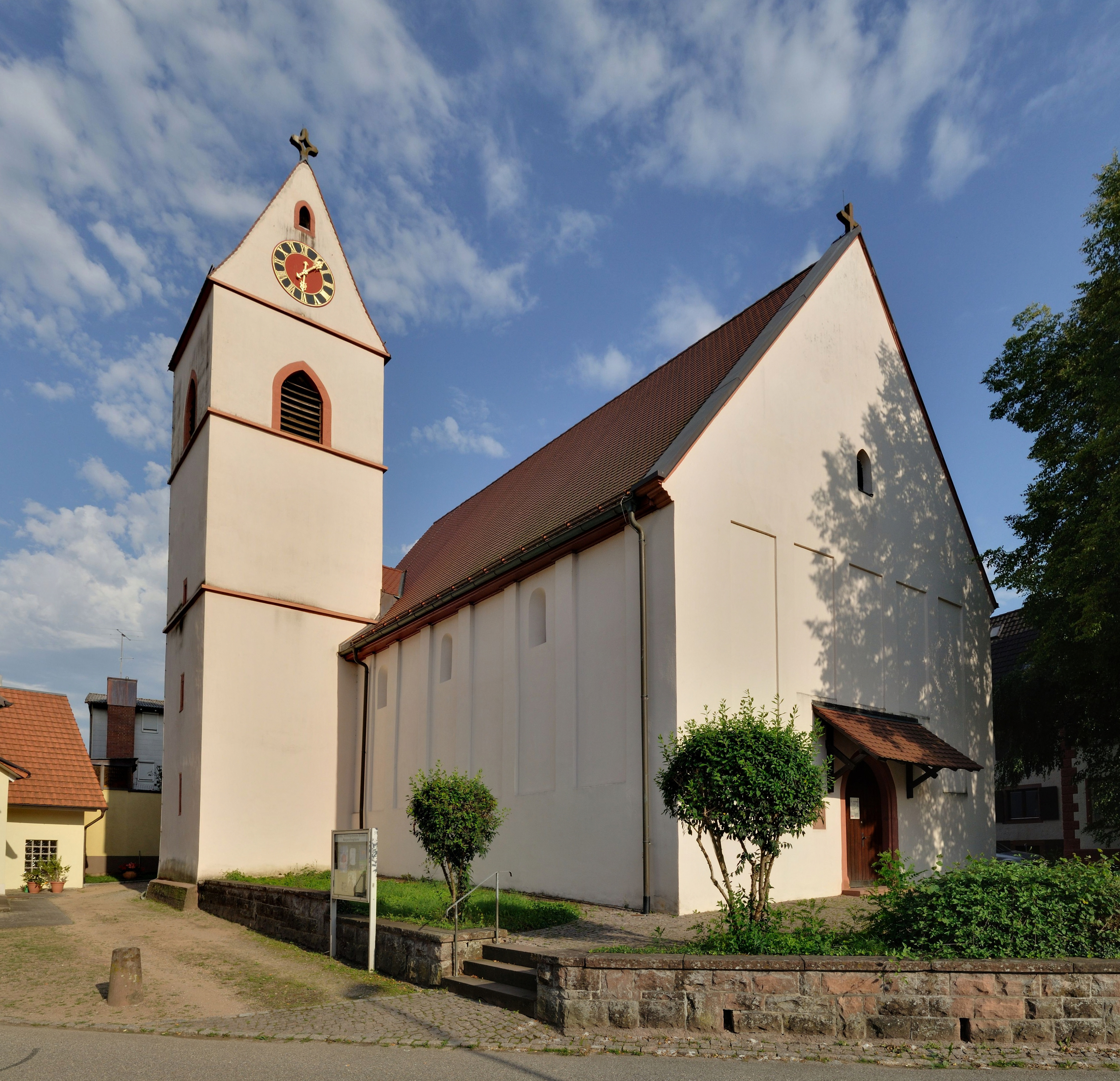 Steinen-Höllstein: Protestant Church